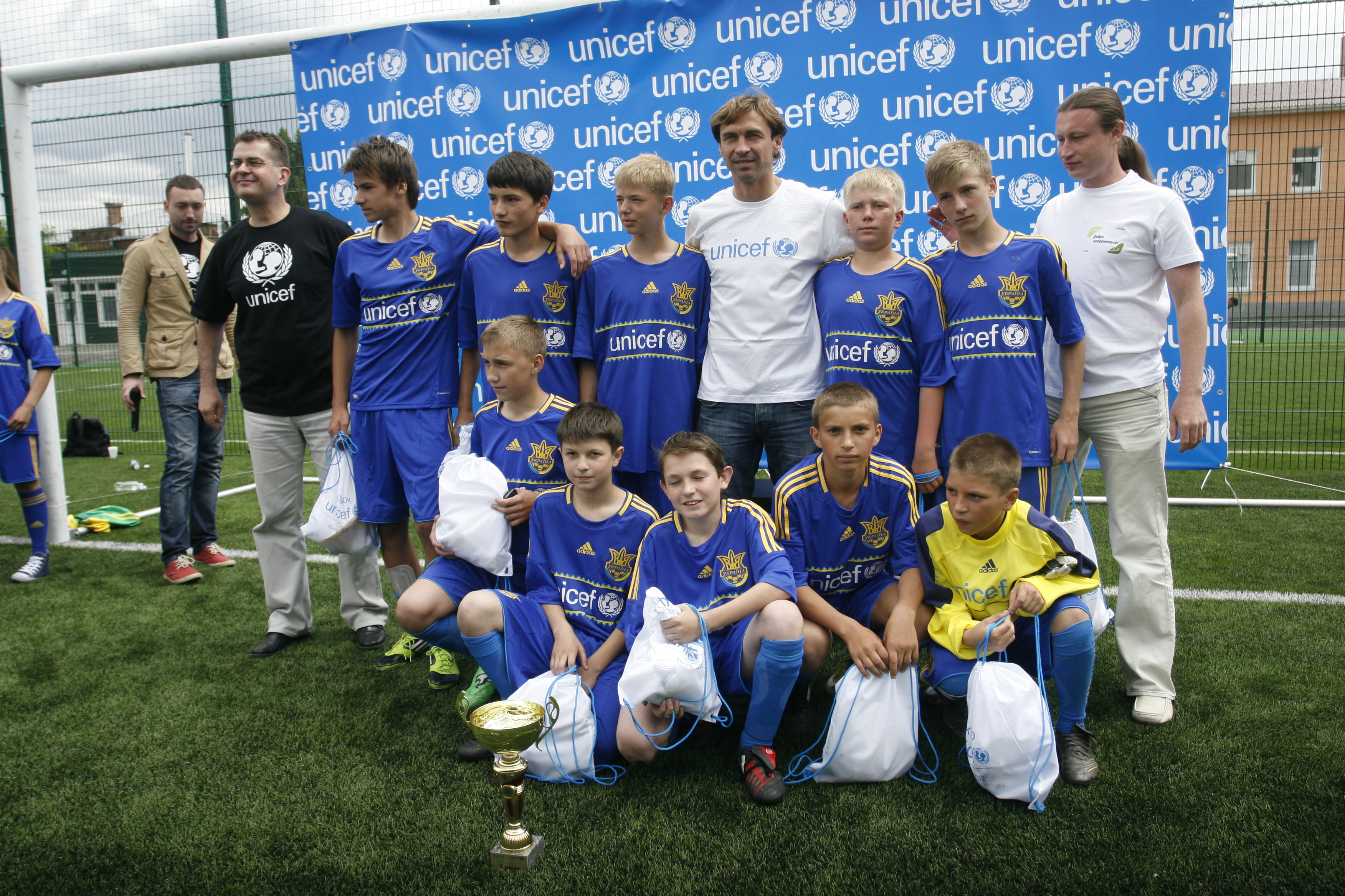 Children from Kolomiya (Ivano-Frankivsk) team with famous Ukrainian football player Vladislav Vaschuk, UNICEF Deputy Representative Rudi Luchmann, Ukrainian Philanthropic Marketplace Director Pavlo Novikov after the tournement.